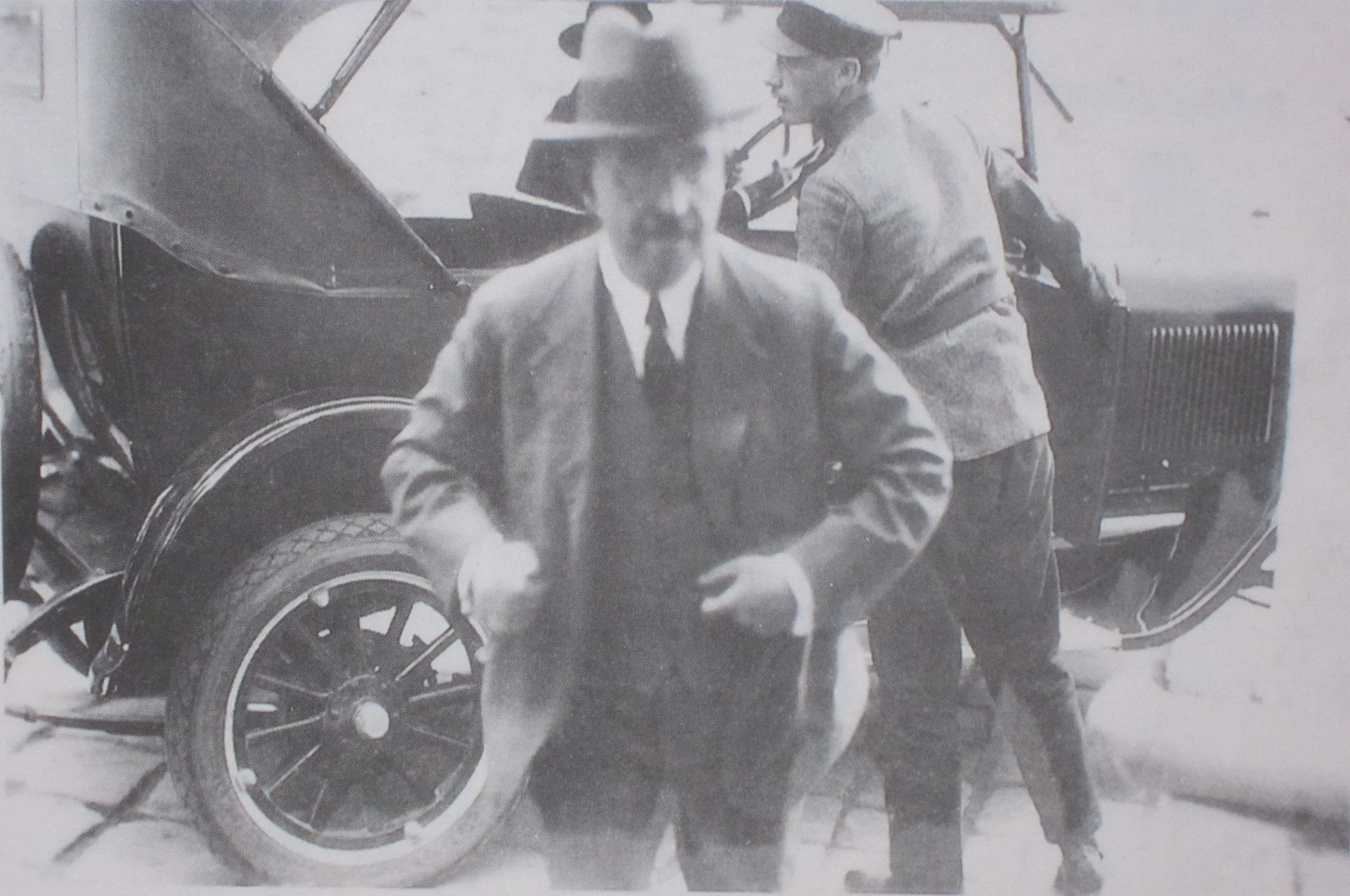 Former Finance Minister Djavid Bey